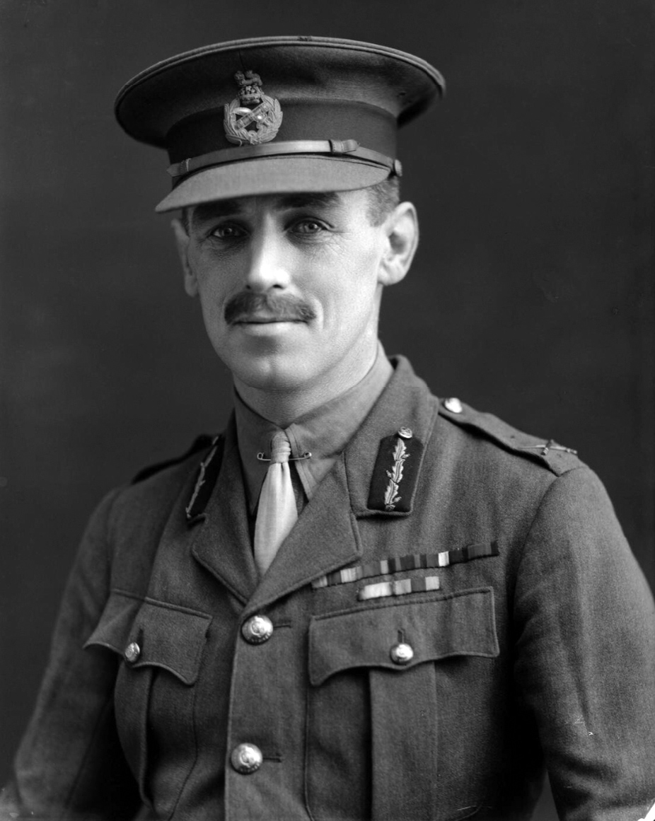 Brig.-Gen. Reginald Francis Arthur Hobbs (30 January 1878 – 10 July 1953), British Army officer